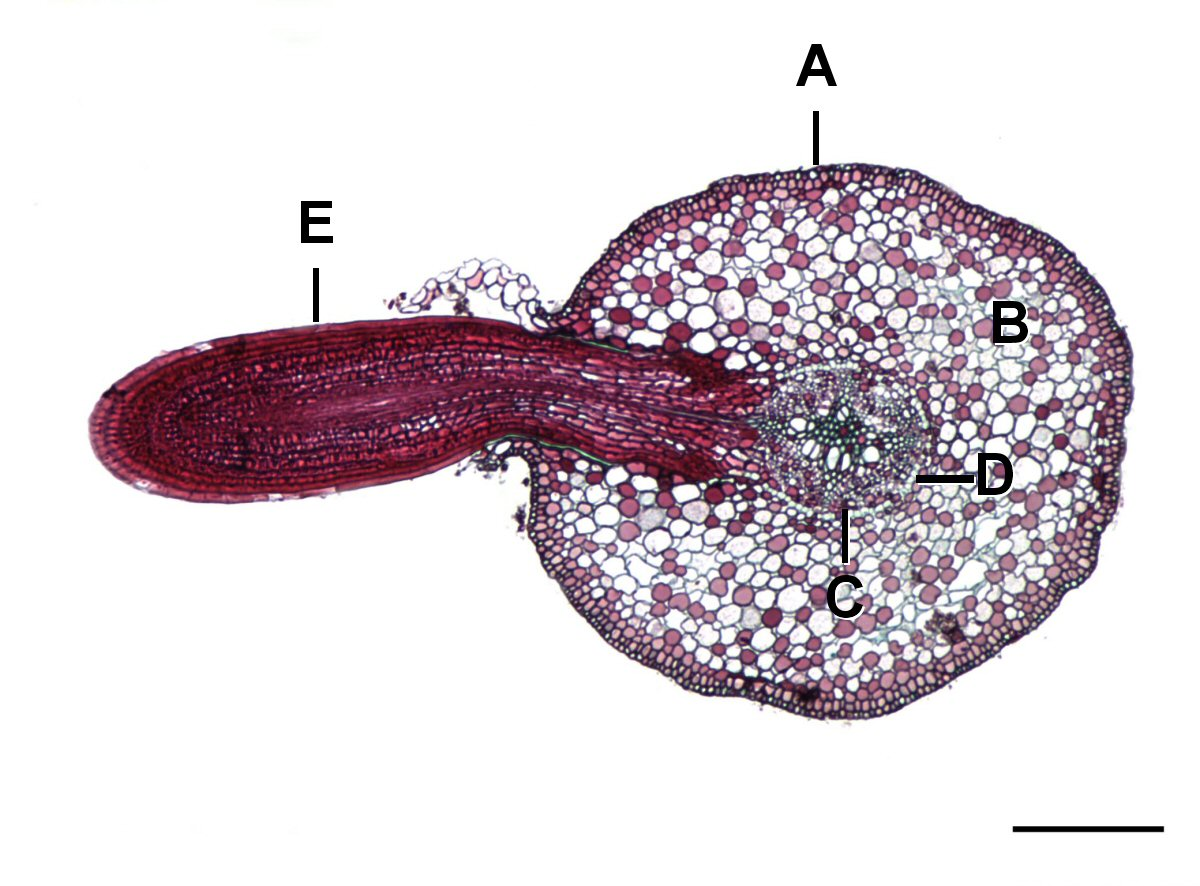 Photomicrograph of a Salix root. A-Epidermis, B-Cortex, C-Stele, D-Endodermis, E-Branch root.Scale=0.2mm.